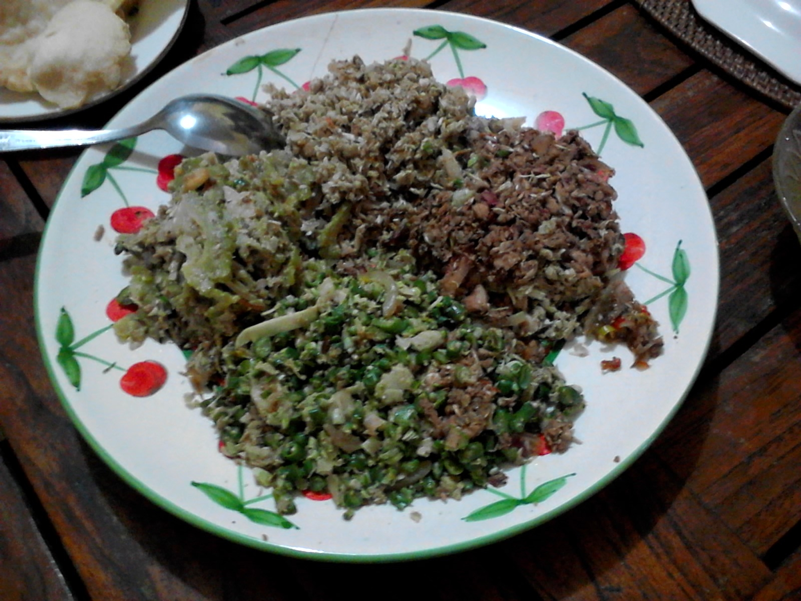 Lawar (mixed vegetables), cuisine of Bali